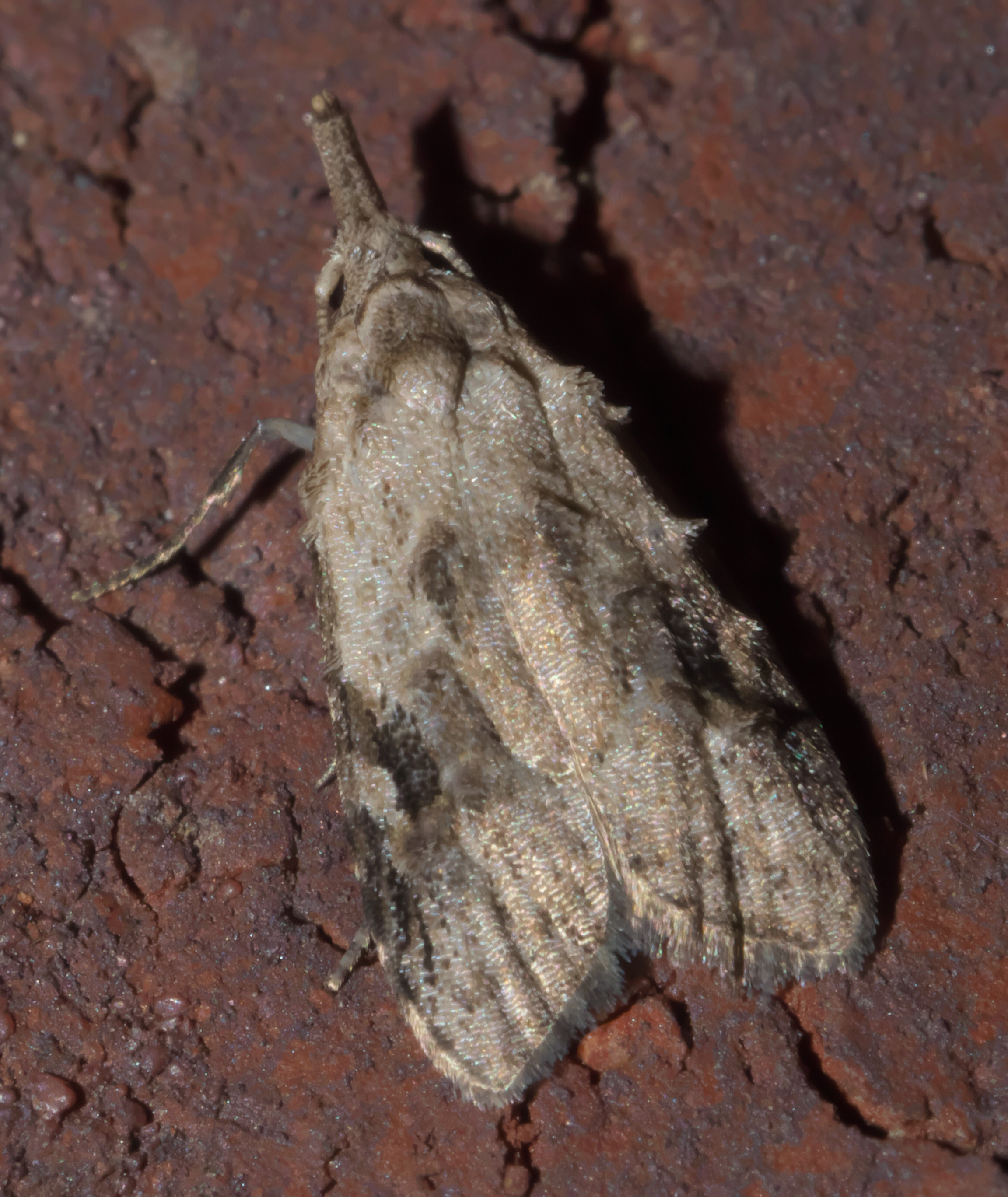 Carposina fernaldana, currant fruitworm moth, Size: 8.5 mm, ID Confidence: 88